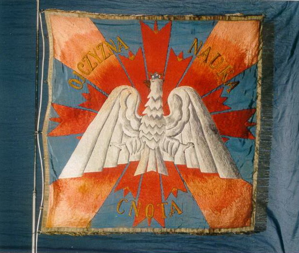 Flag of a grammar school of a name Adam Mickiewicz in Pruzhany. Other side. (1922-1939)